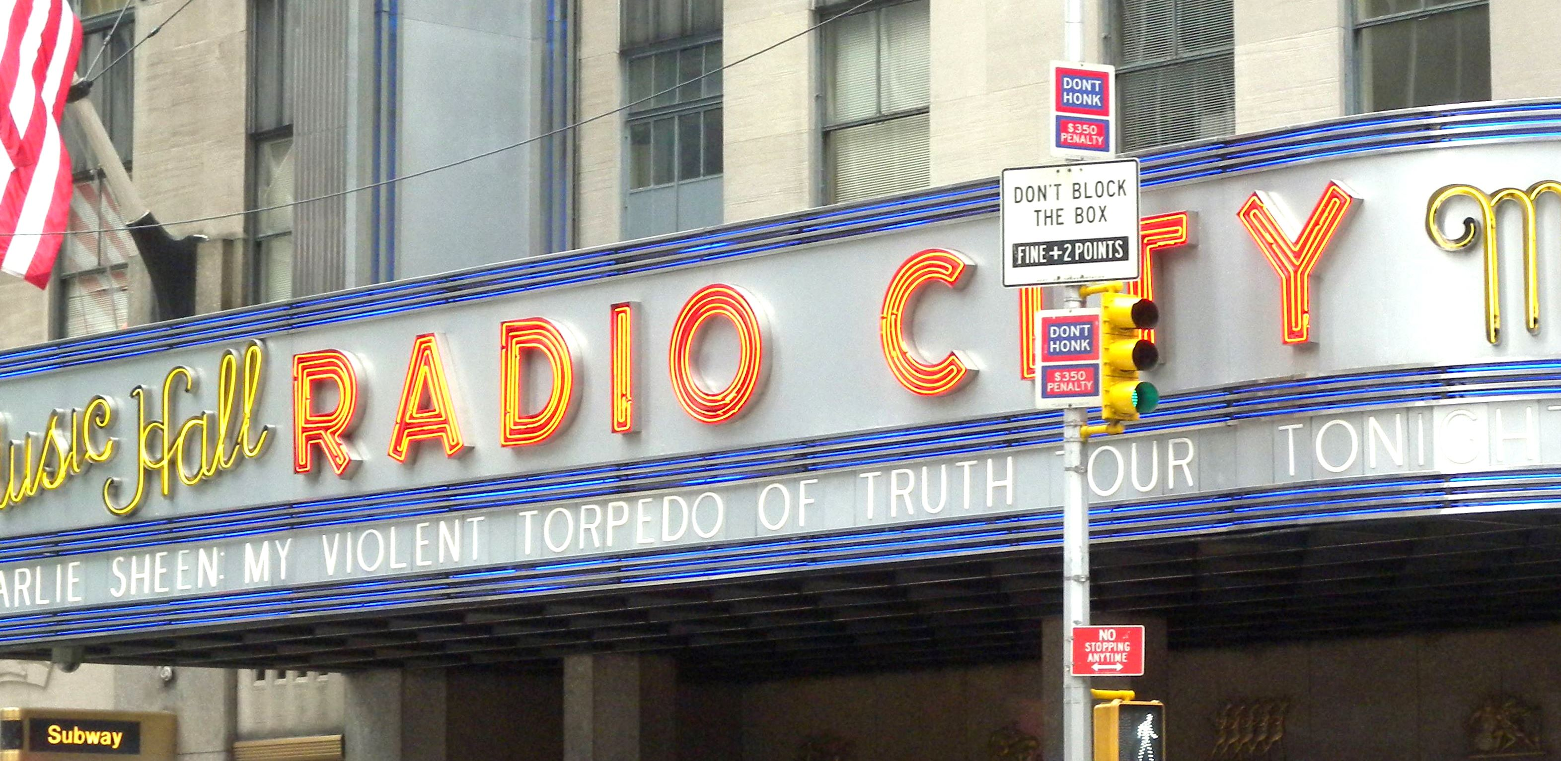 Looking east across 6th Avenue at marquee for the Charlie Sheen show on a cloudy afternoon.